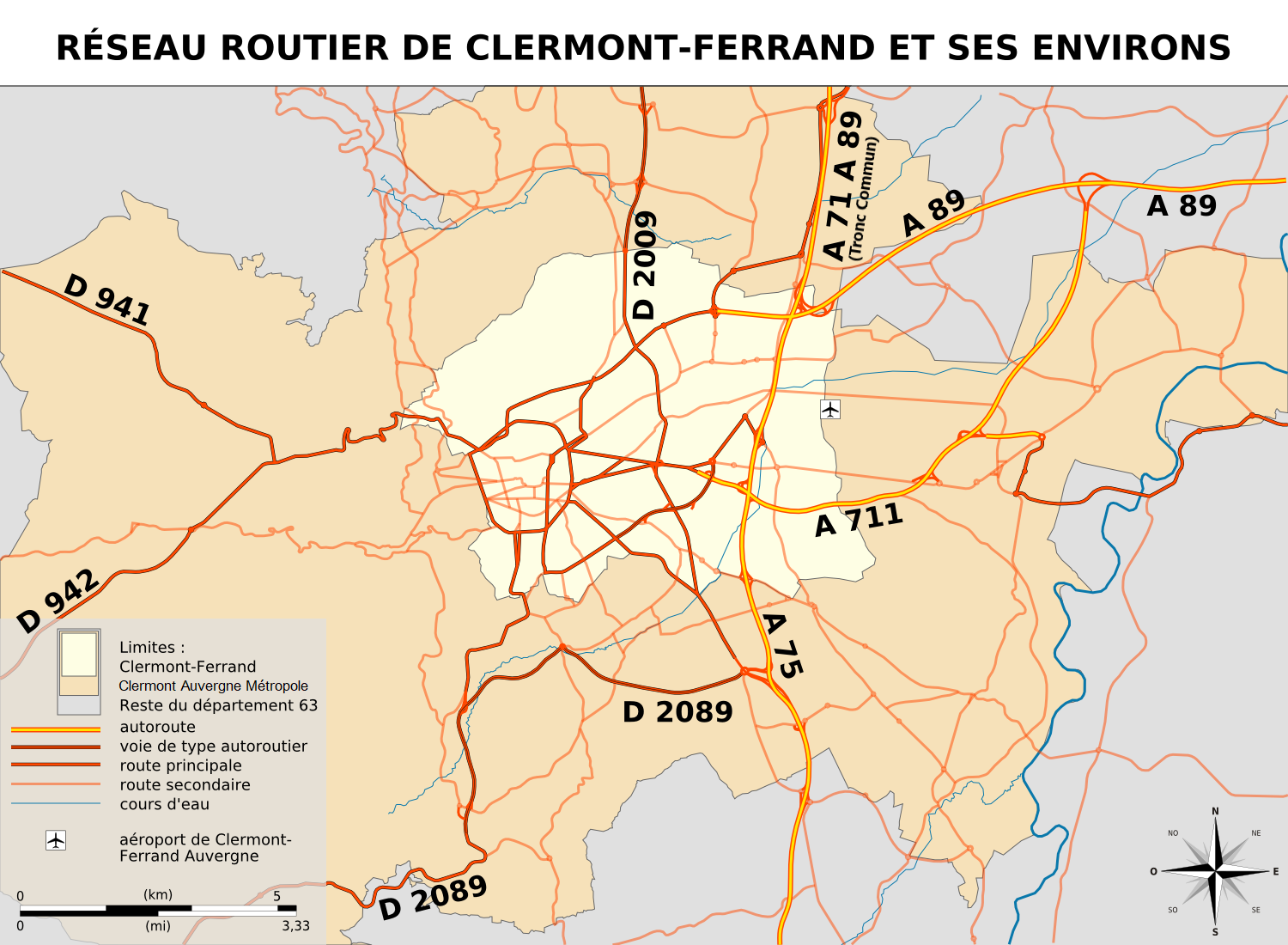 Map of road network of Clermont-Ferrand and around